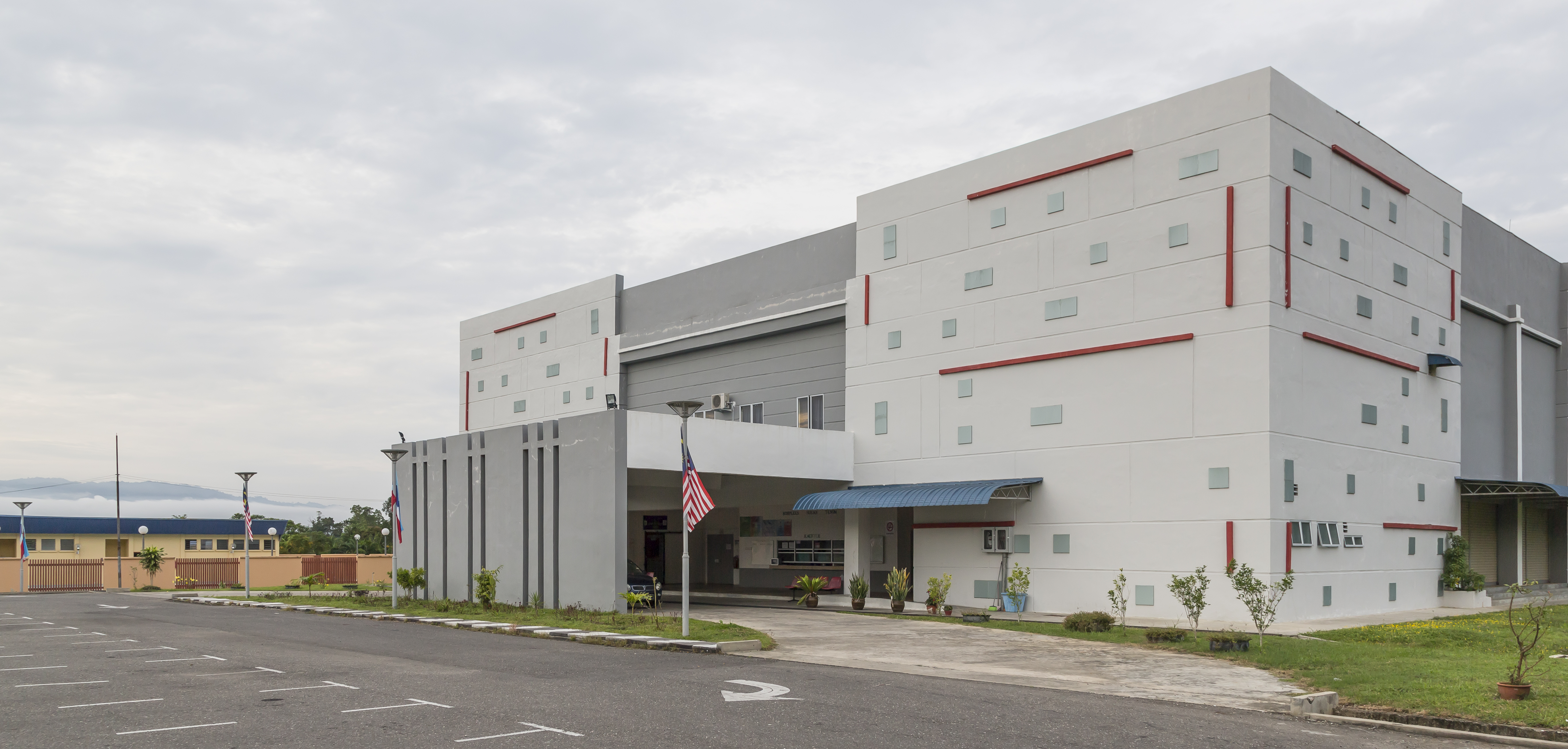 Tenom, Sabah, Malaysia: The multi purpose hall of Tenom Sports Complex